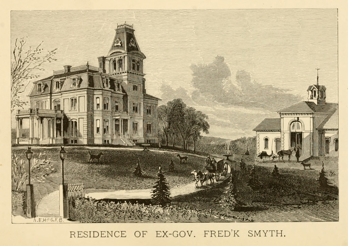 Ex-Governor Smyth's house is finely situated on rising ground just east of Amoskeag Falls, on the spot where the Pennacooks lived when the Merrimack swarmed with fish and the Indians came to the Falls to catch them. The grounds contain about ten acres and include the site of a former Indian village, where many interesting relics of the aboriginal dwellers have been exhumed. On the eastern side runs Elm street and on the western the River road, while North street and Salmon street form, respectively, the northern and southern boundaries. The house, which is built of brick with granite trimmings, two stories high with a French roof surmounted by a tower, was begun in 1867 and finished in 1873. It was designed by Gov. Smyth and his wife and built from plans by Bryant & Rogers of Boston. It is a spacious and convenient dwelling, with walnut wainscotings and marble thresholds. The rooms in the second story are finished each with a different kind of native wood and the ceilings are frescoed to correspond. The windows command a view of the Merrimack for a mile up and down, the mills, the falls, the bridge and islands, and from them can be seen the whole city, the towns across the river, Joe English hill, the Uncanoonucs and the Francestown range of mountains.